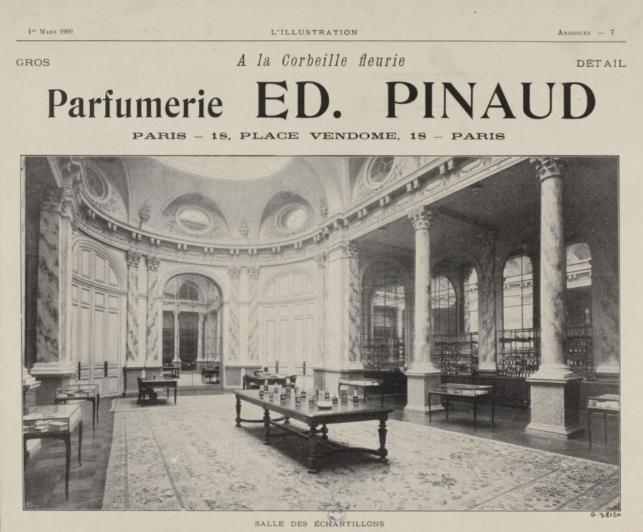 A la Corbeille fleurie Parfumerie Ed. Pinaud 18 place Vendôme Paris, advertising published in L'Illustration, Paris: 1st March 1902.